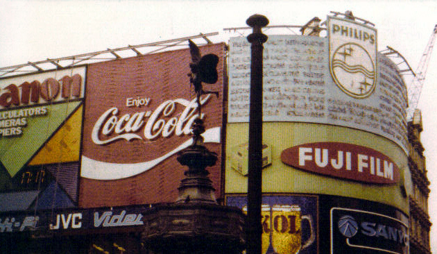 Eros and Piccadilly Lights in central London pictured on April 24th 1980.